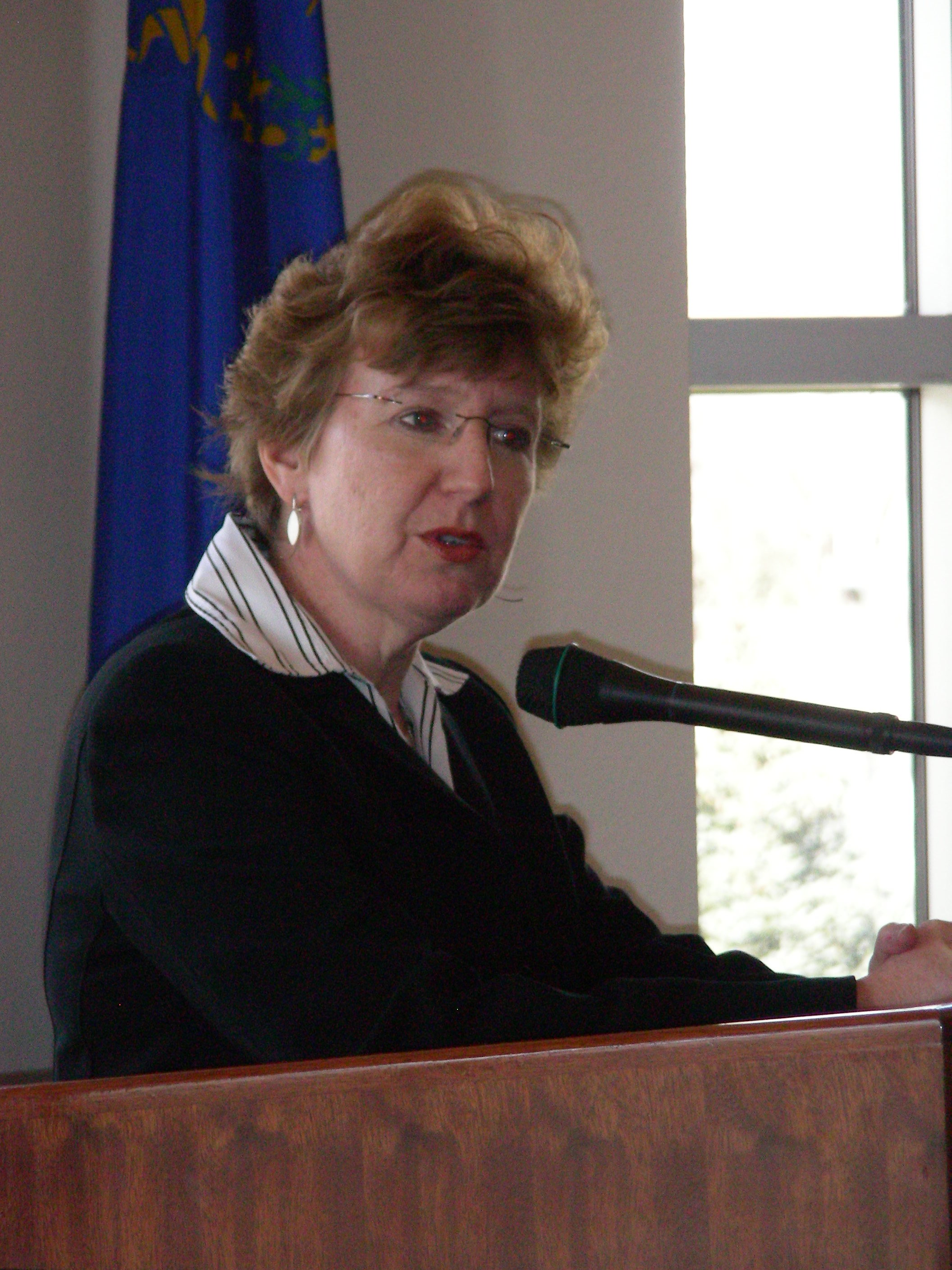 Keynote - Grassroots Lobby Days, Nevada Legislature, Carson City, NV 2009